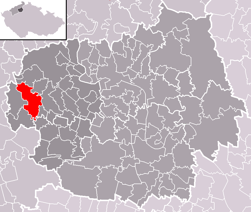 Location of Podsedice municipality within Litoměřice District and administrative area of Lovosice as a Municipality with Extended Competence.